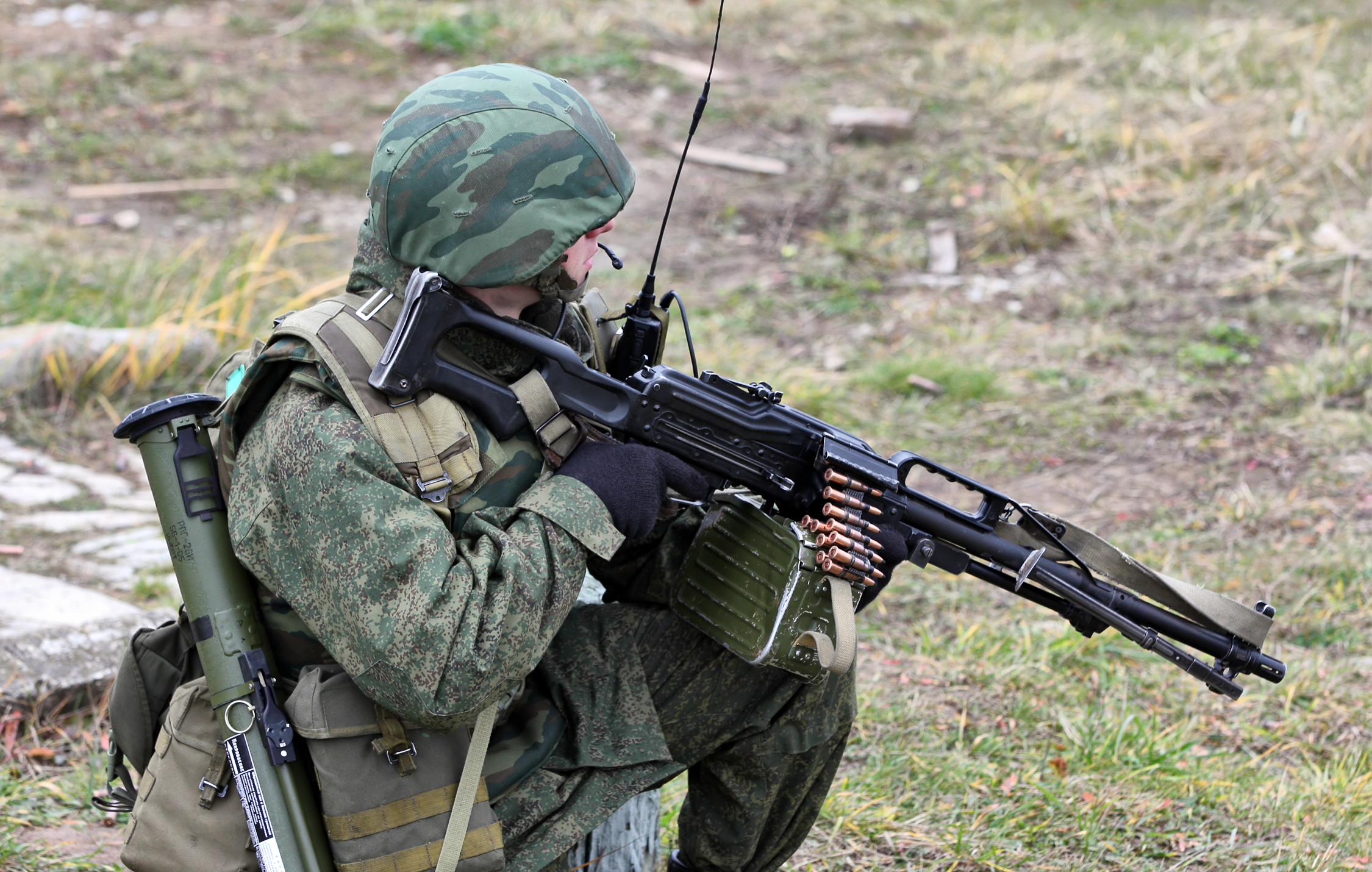 Recon group demonstrated the raid to the enemy position